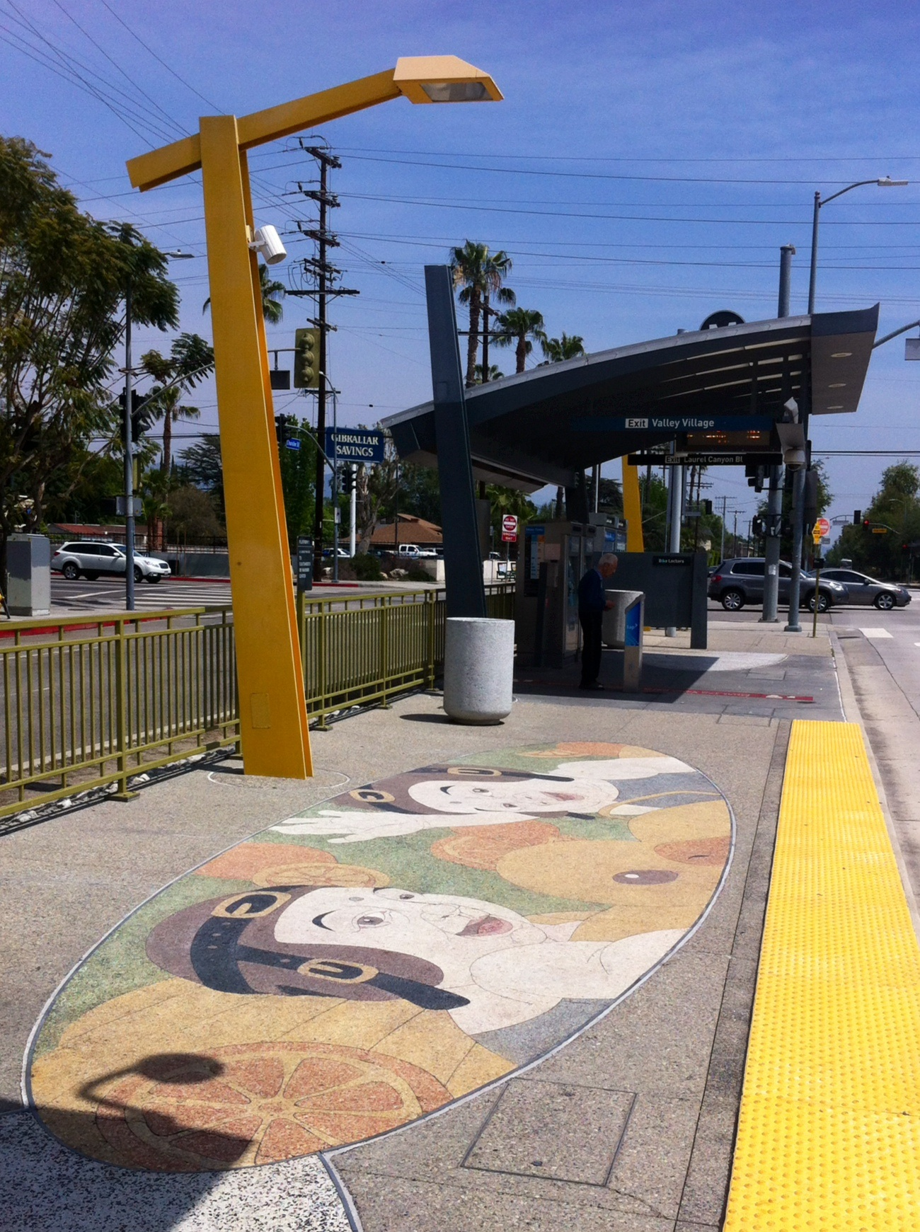 The ticket machine, gate, and the signage of the Laurel Canyon Station.